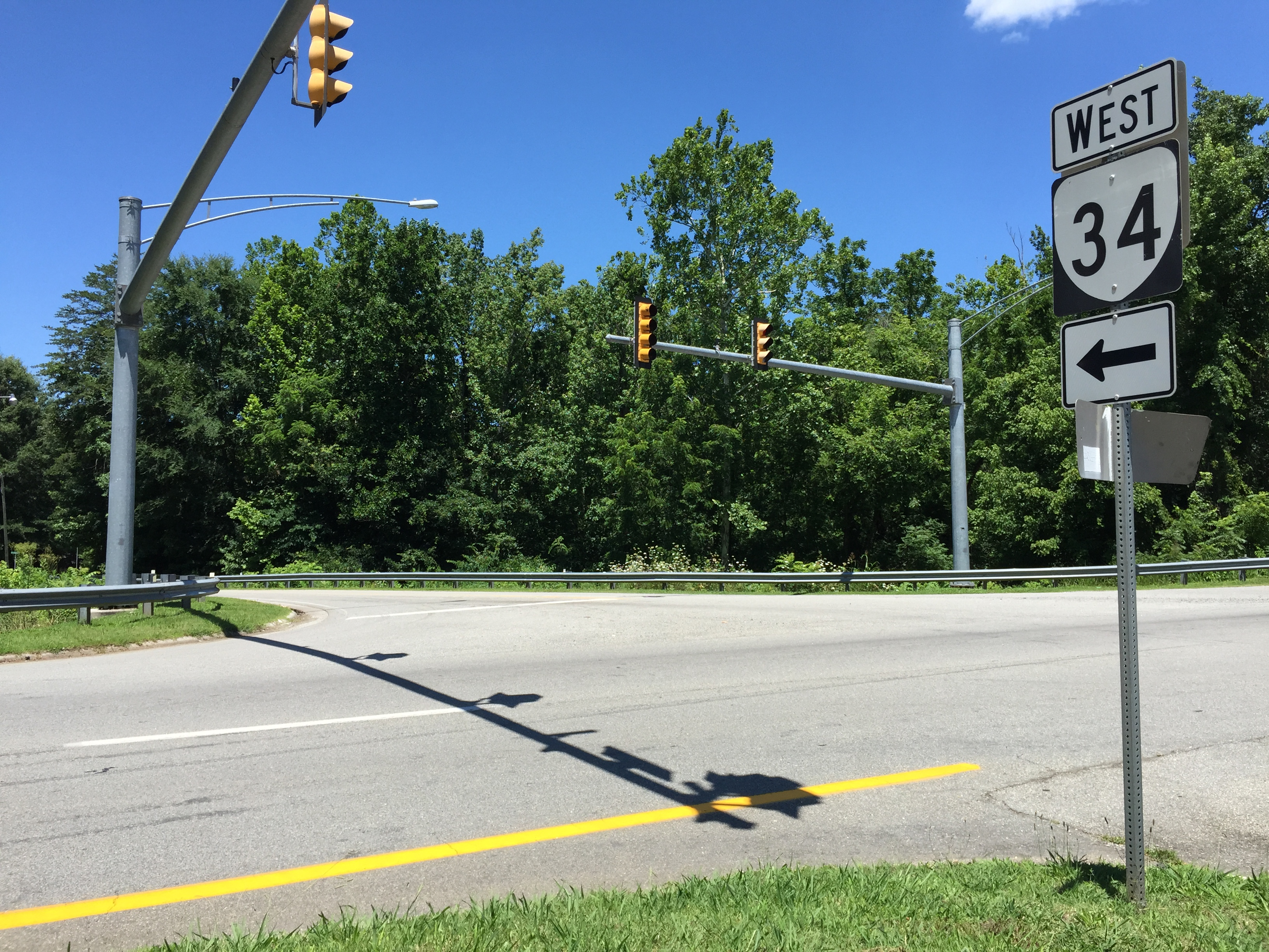 View west along Virginia State Route 34 (Hodges Street) at U.S. Route 360 (John Randolph Boulevard) in South Boston, Halifax County, Virginia